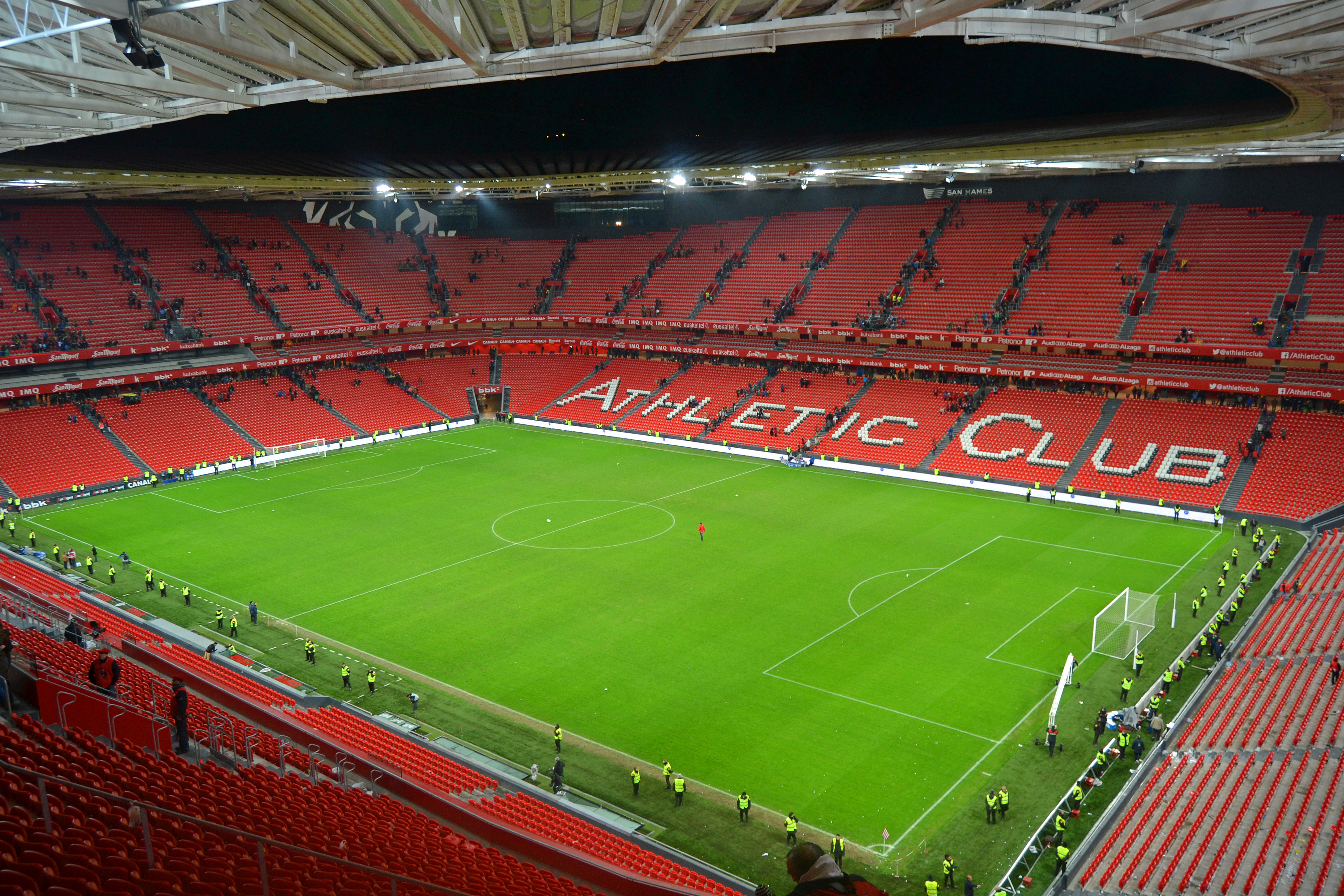 Before Basque National Football Team - Catalan National Football Team match. 28th December 2014. Bilbao, Basque Country.